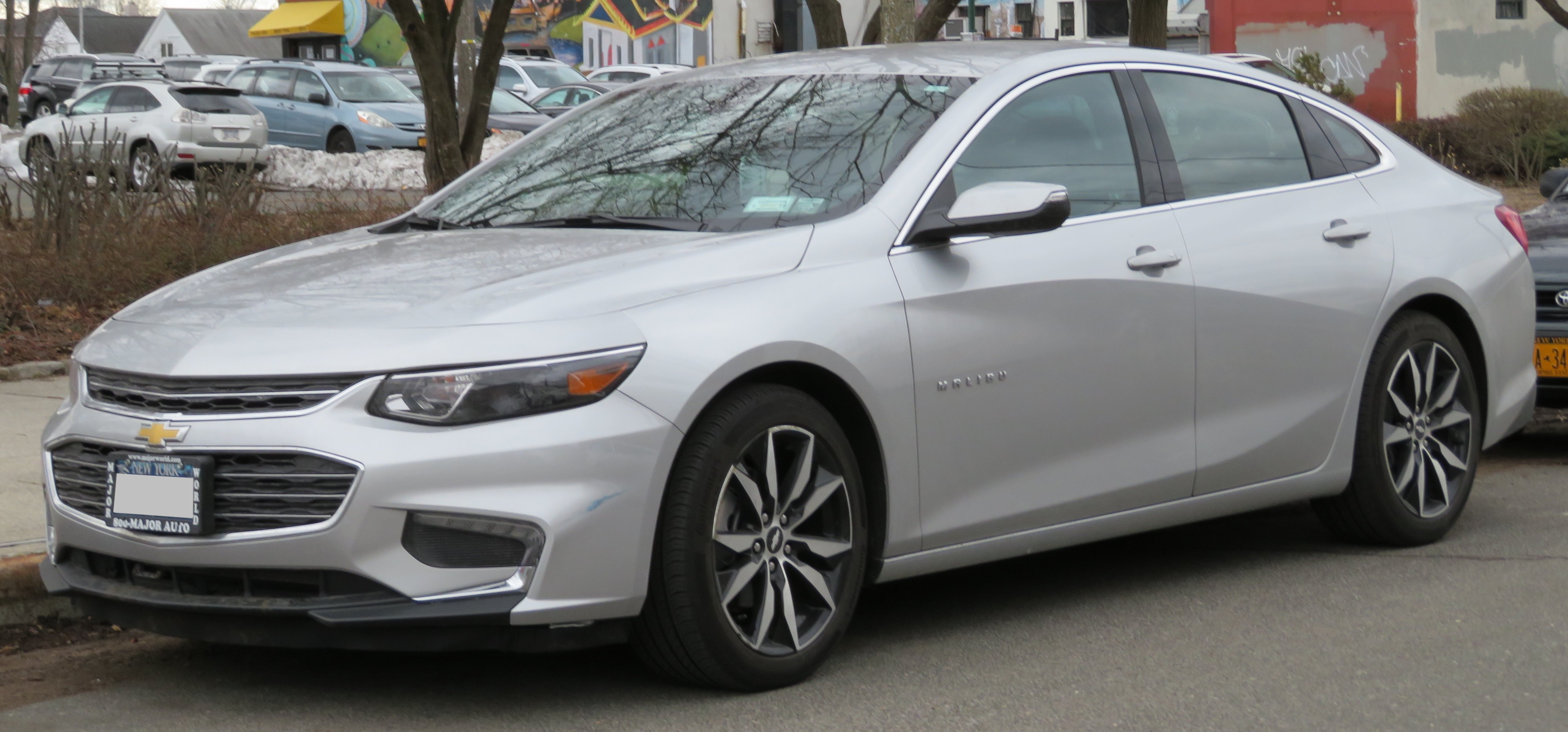 In Queens, New York